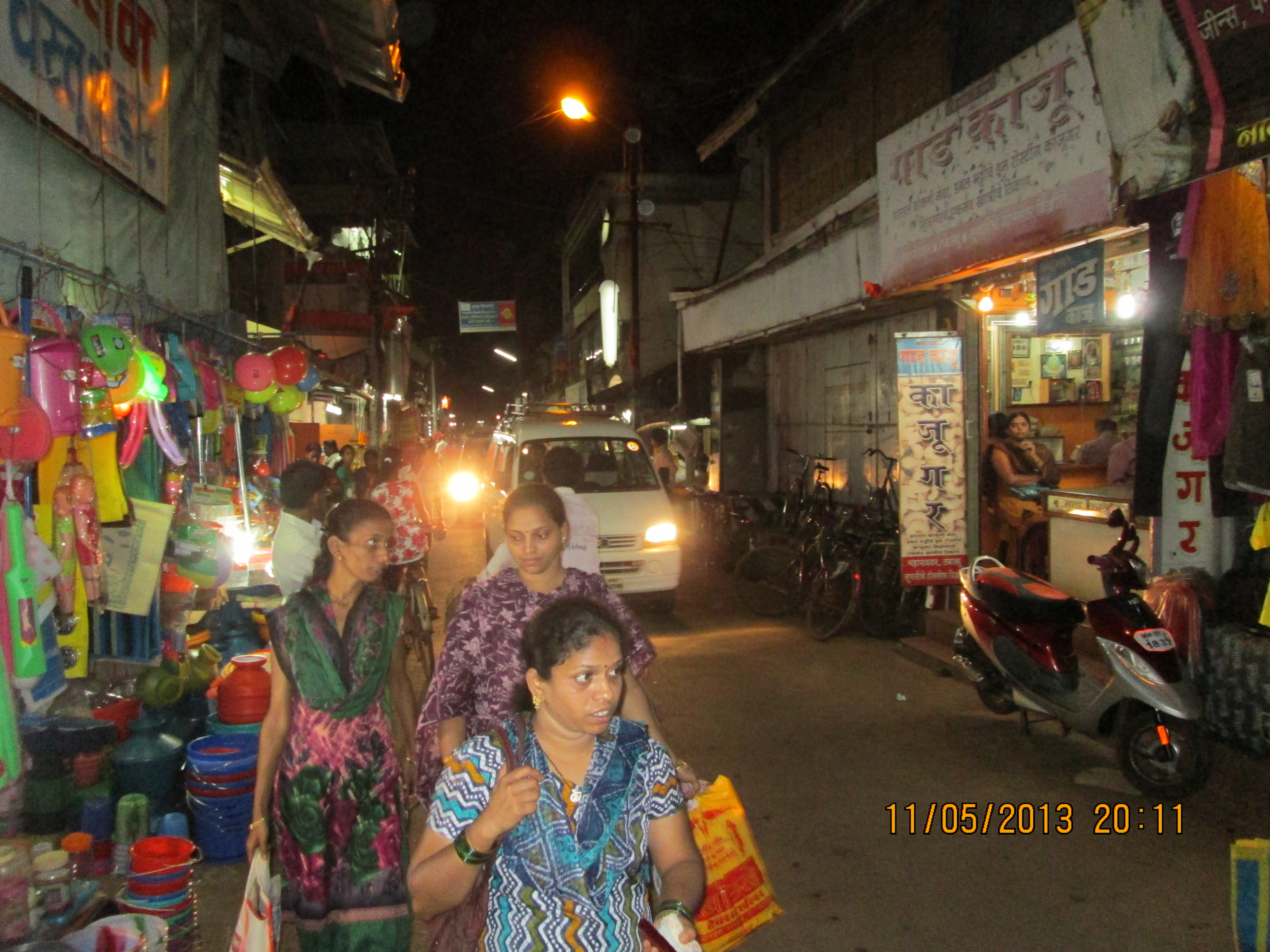 The narrow road in the main town of Malvan.